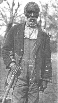 "Uncle" Jim Lawson, an African American former slave, age 94, photographed in 1915 by Essie Collins Matthews. He was born into slavery in Ward County, Maryland, in about 1821. His parents were slaves owned by Benjamin Ogle Tayloe. About 1845, he was taken by Mr. Tayloe to Tayloe's cotton plantation ("Windsor"), located between Uniontown and Selma, Alabama. Freed after the American Civil War, he continued to work for Tayloe's descendent, Judge William Henry Tayloe.